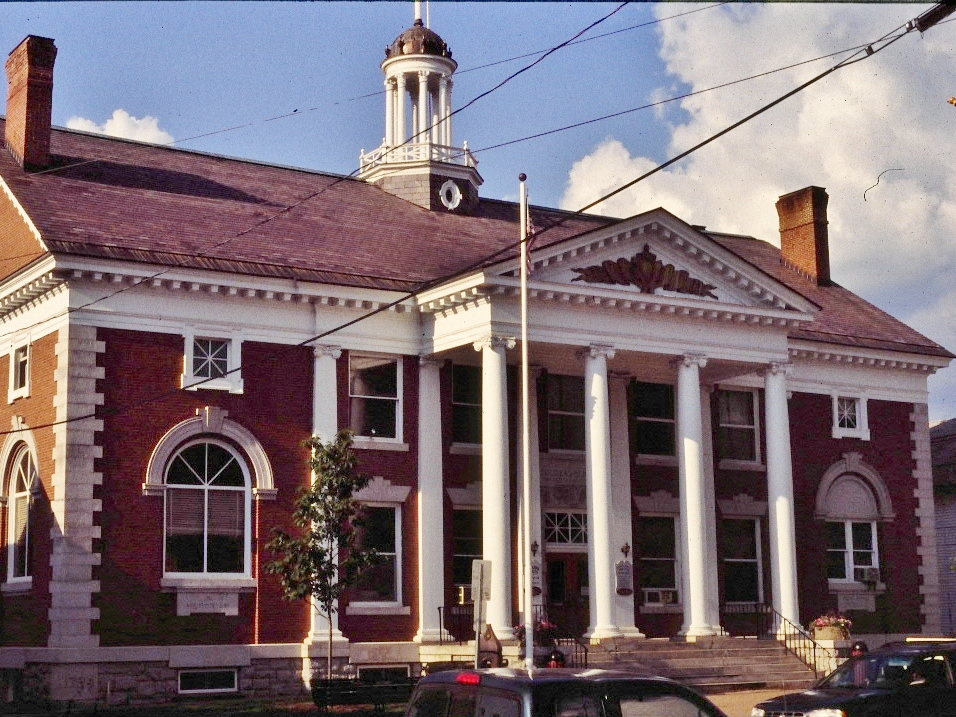 Built in 1902 by Healy Cady Akeley this is the second town hall in Stowe and now also houses the Stowe Historical Museum.